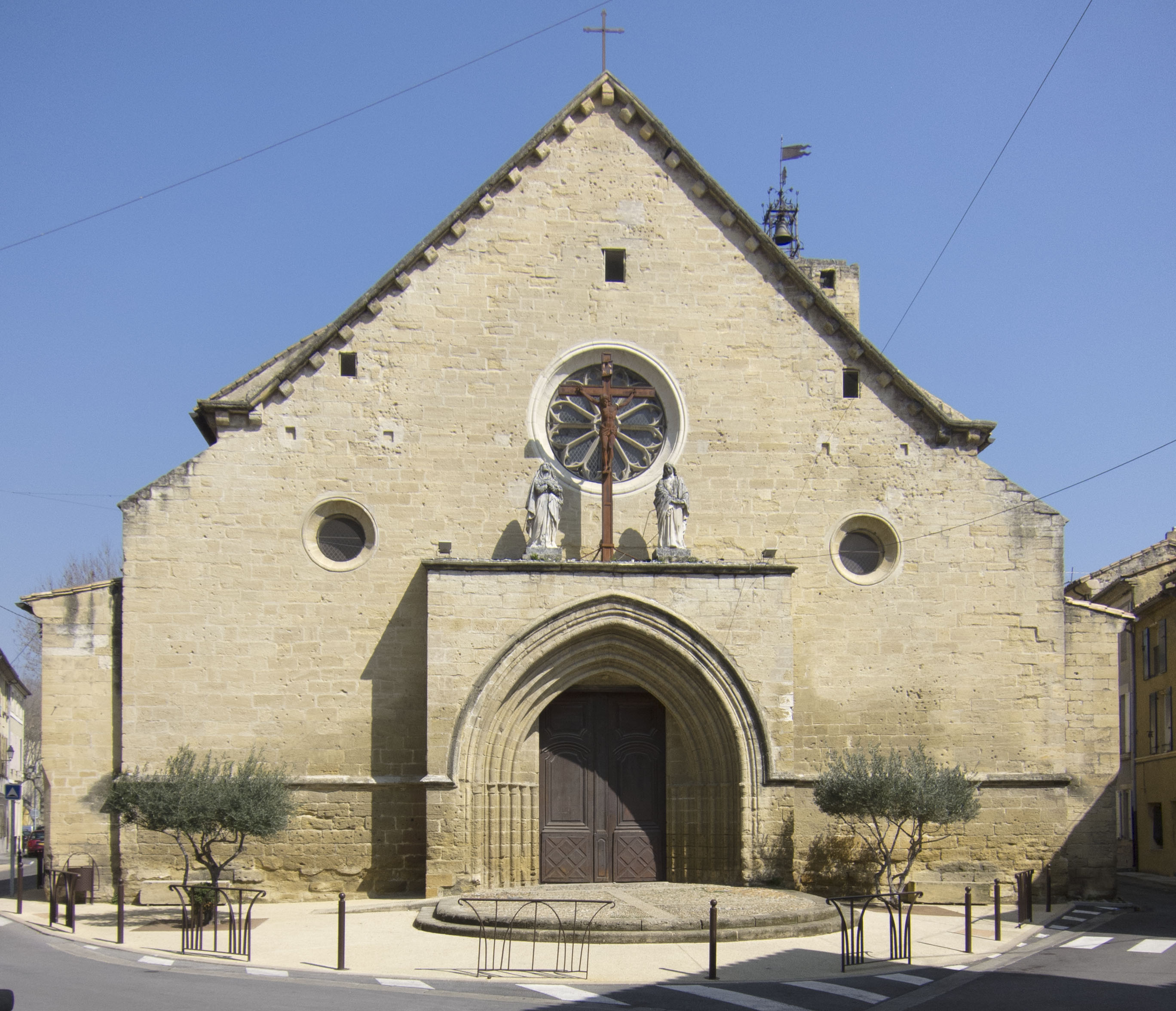 View of the west end of the church in Roquemaure, Gard